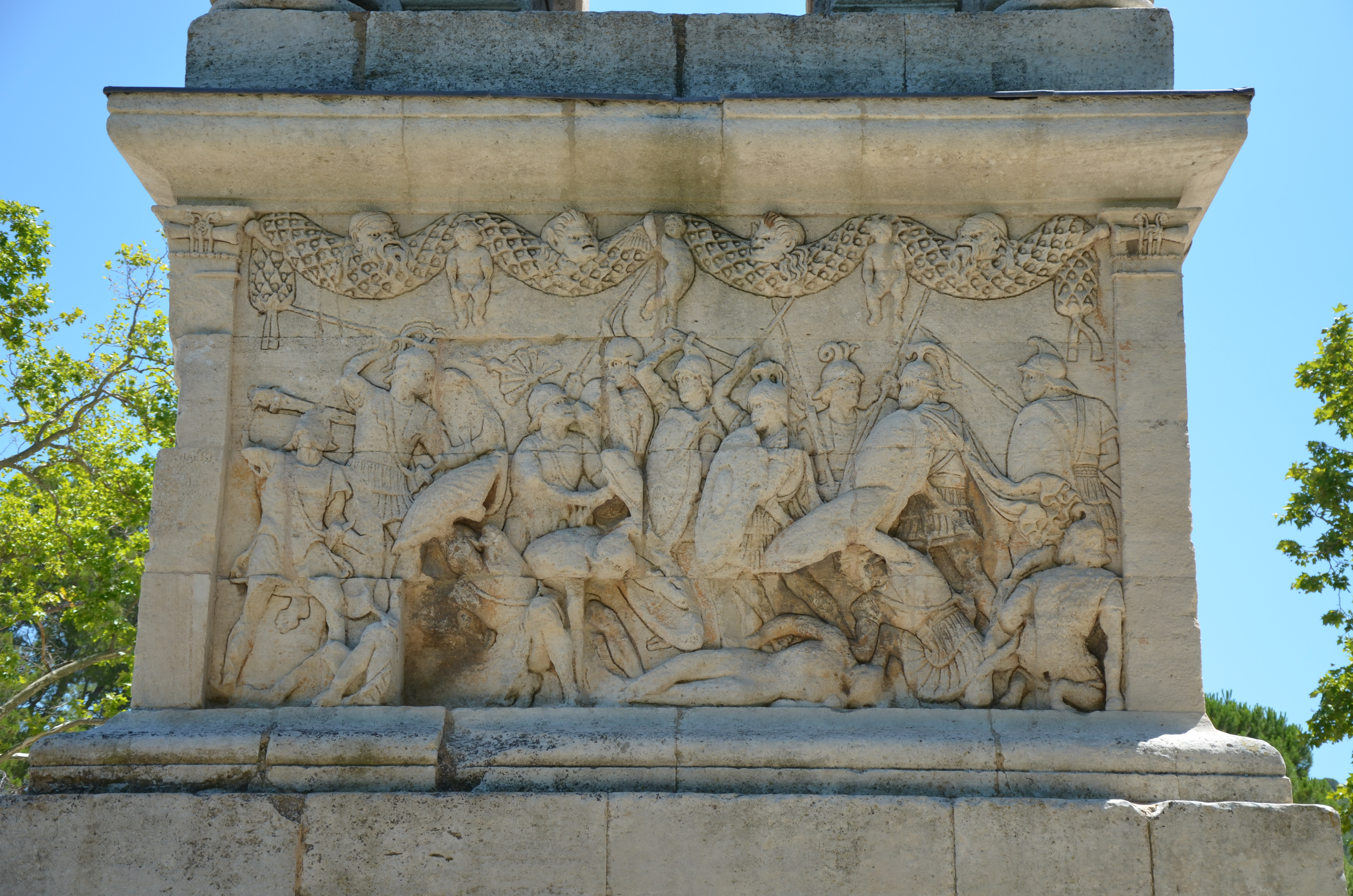 The Mausoleum of the Julii, located across the Via Domitia, to the north of, and just outside the city entrance, dates to about 40 BCE, and is one of the best preserved mausoleums of the Roman era. A dedication is carved on the architrave of the building facing the old Roman road, which reads: SEX · M · L · IVLIEI · C · F · PARENTIBVS · SVEIS Sextius, Marcus and Lucius Julius, sons of Gaius, to their forebears It is believed that the mausoleum was the tomb of the mother and father of the three Julii brothers, and that the father, for military or civil service, received Roman citizenship and the privilege of bearing the name of the Julii, one of the most distinguished families in Rome.